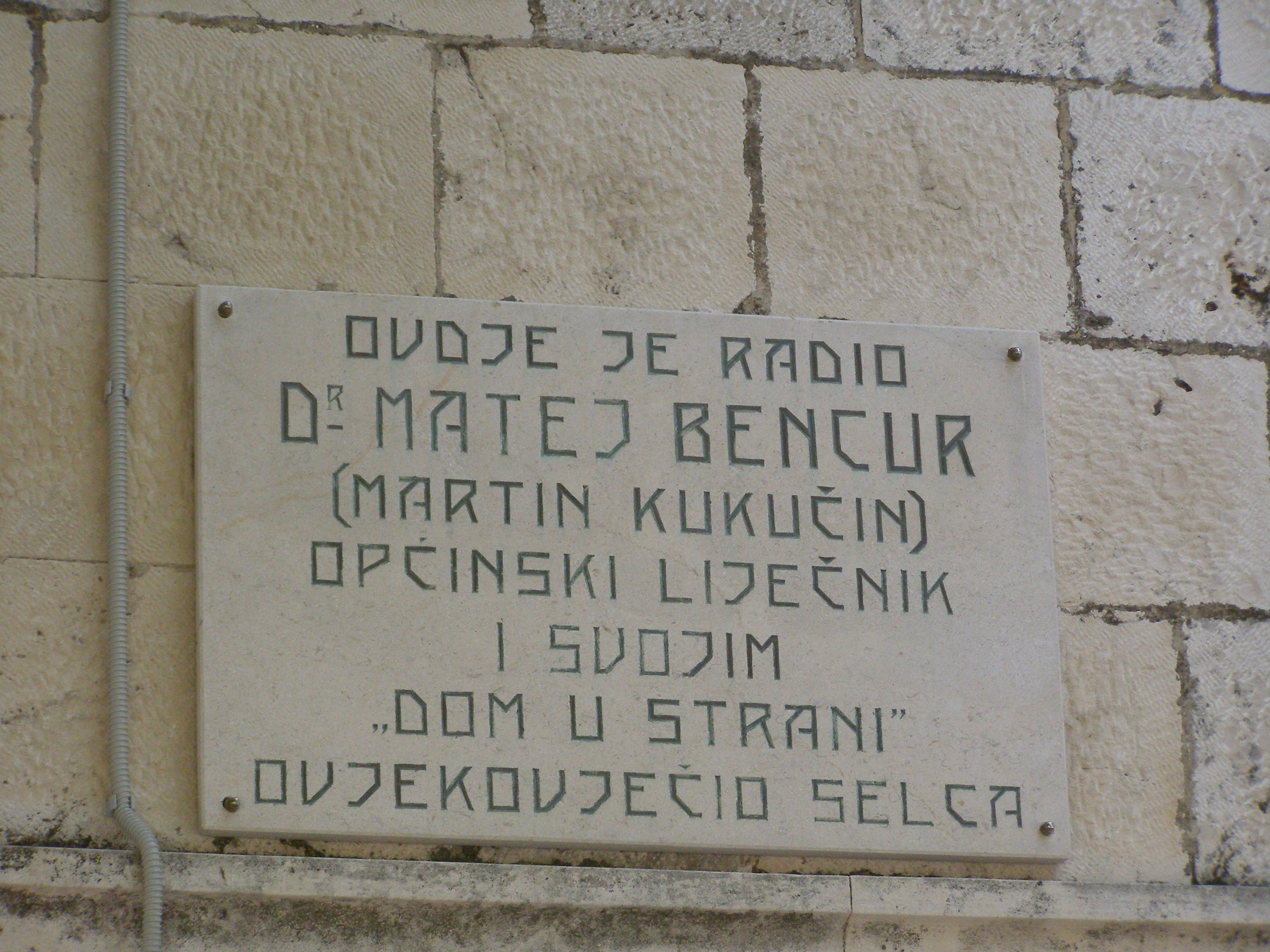 Martin Kukučín (Dr. Matej Bencúr) memorial plate at the village of Selca, island of Brač, Croatia